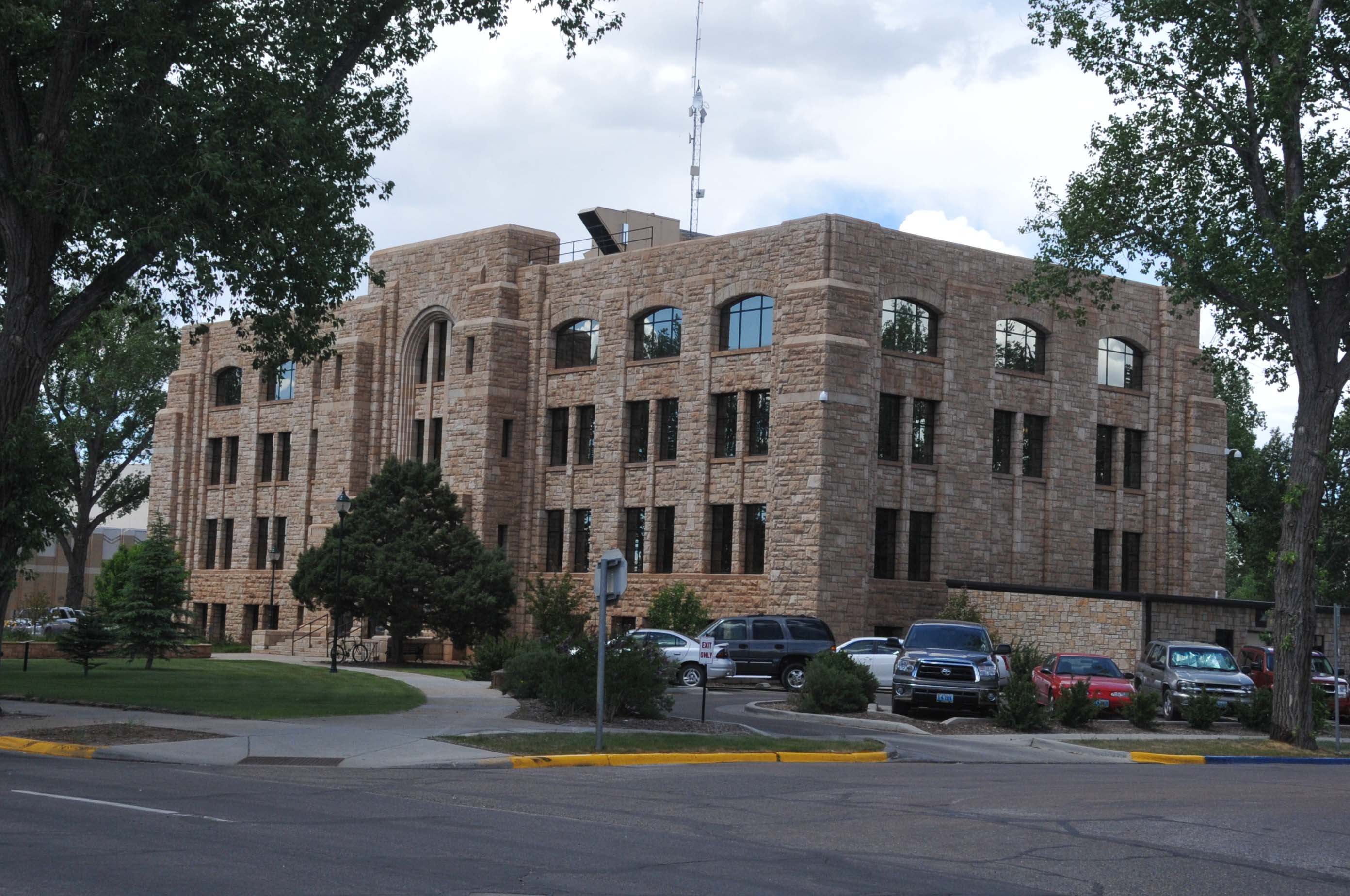 The Albany County Courthouse on Grand Ave. is within the historic district.